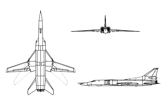 Line drawings of Tupolev Tu-22M "Backfire" bomber, sometimes referred to as Tu-26.